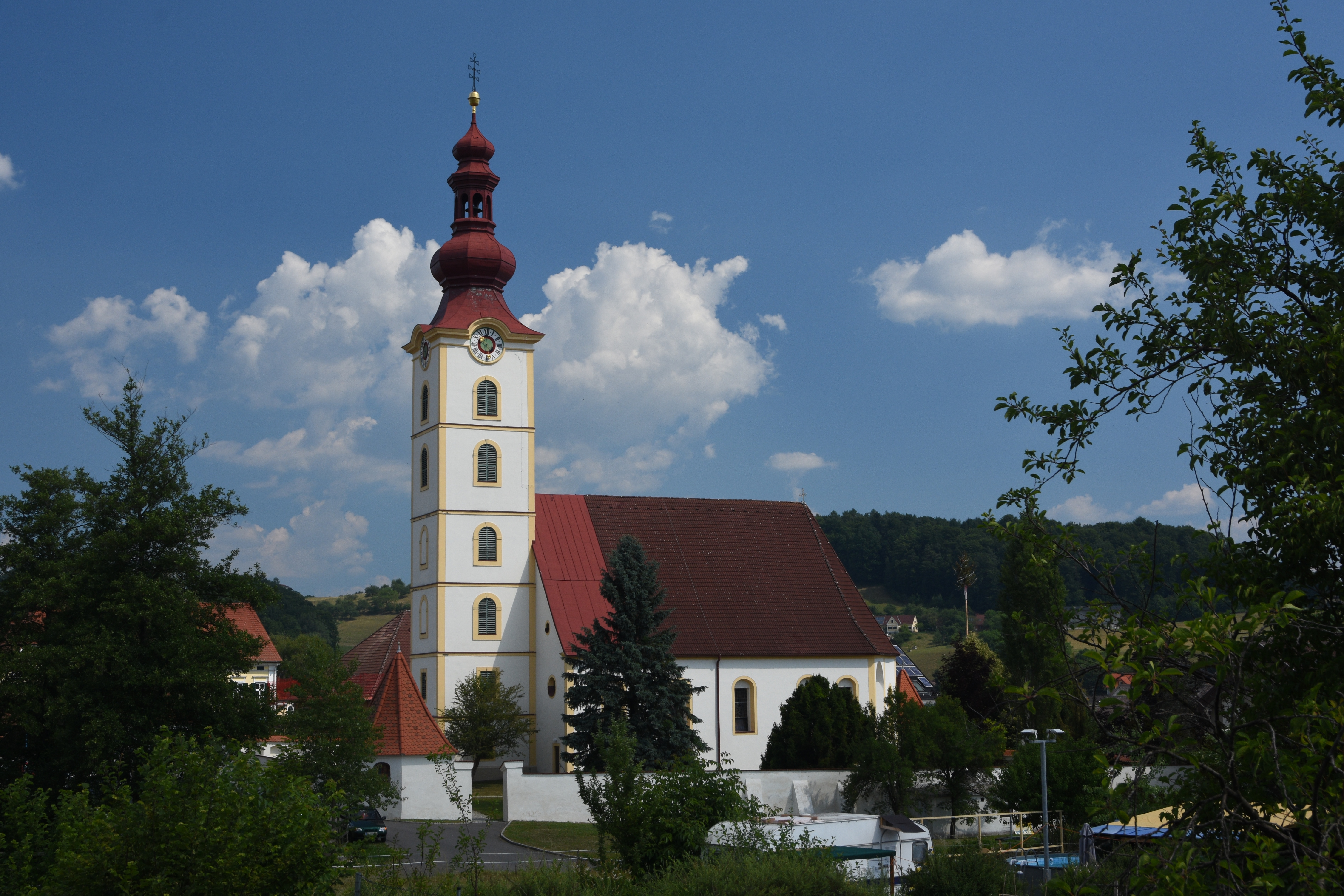 Church Kirchbach